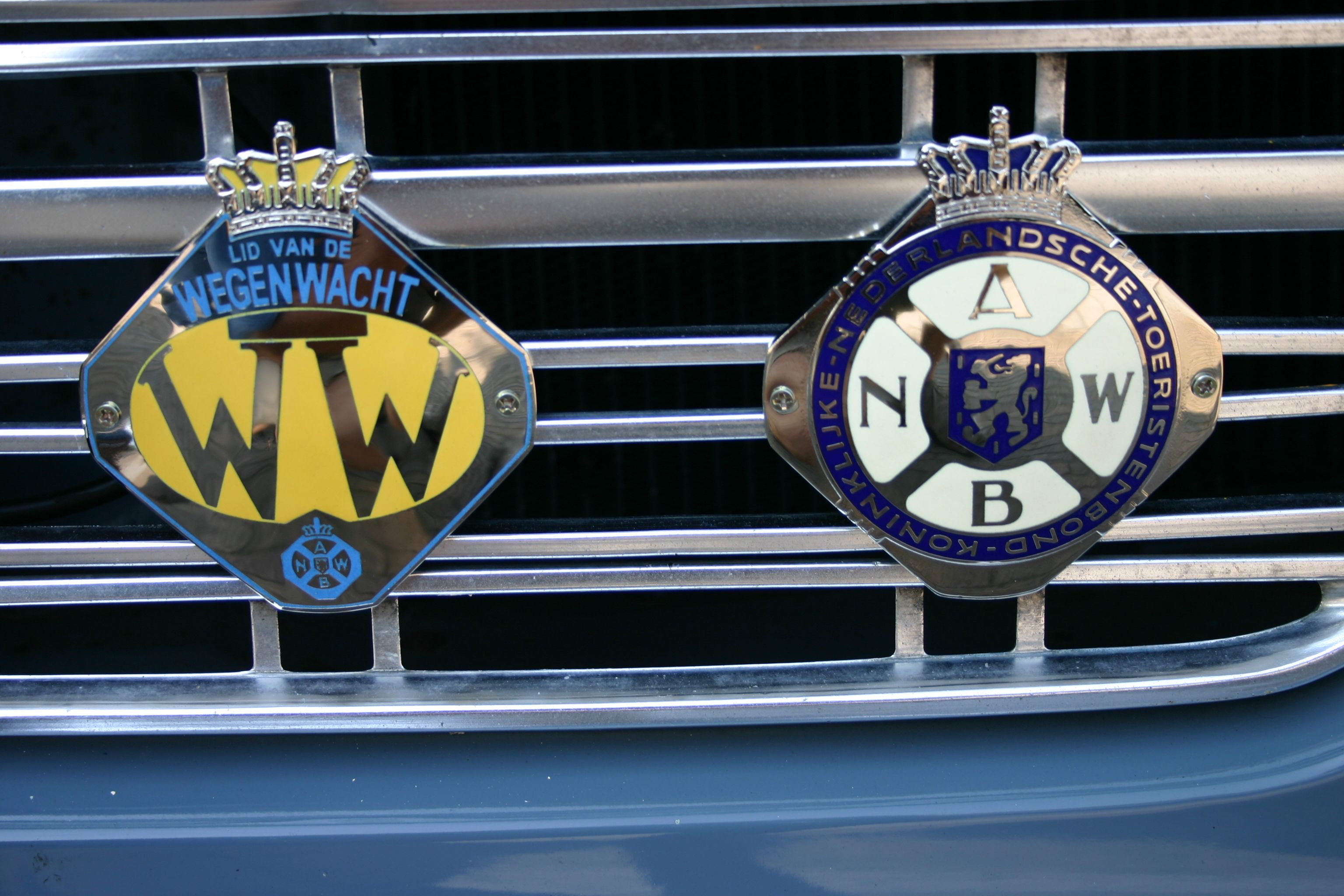 Logo of the Royal Dutch Automobile club